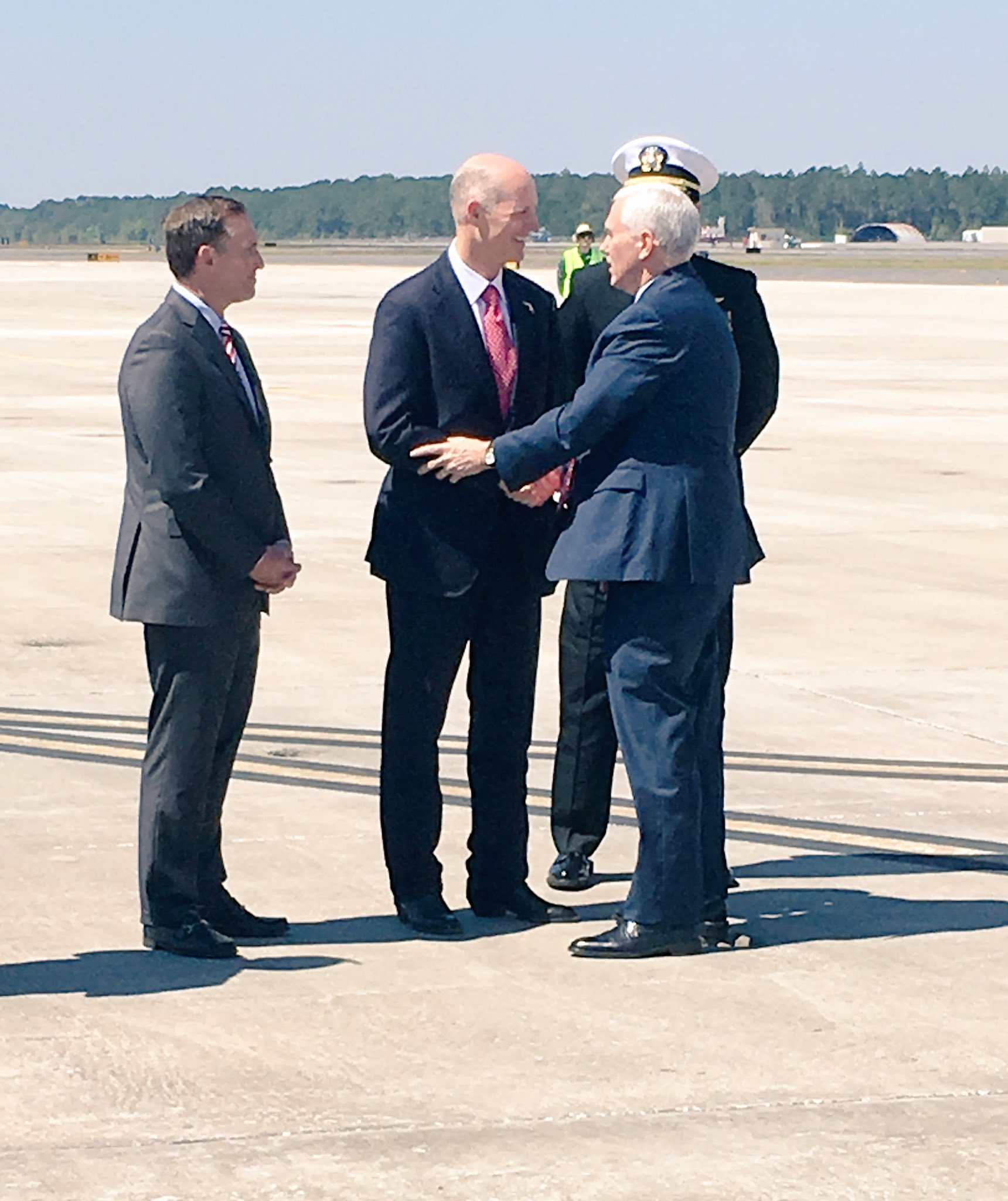 Glad to be in Jacksonville, @FLGovScott & @lennycurry! Looking forward to having a discussion about #repealandreplace of Obamacare.